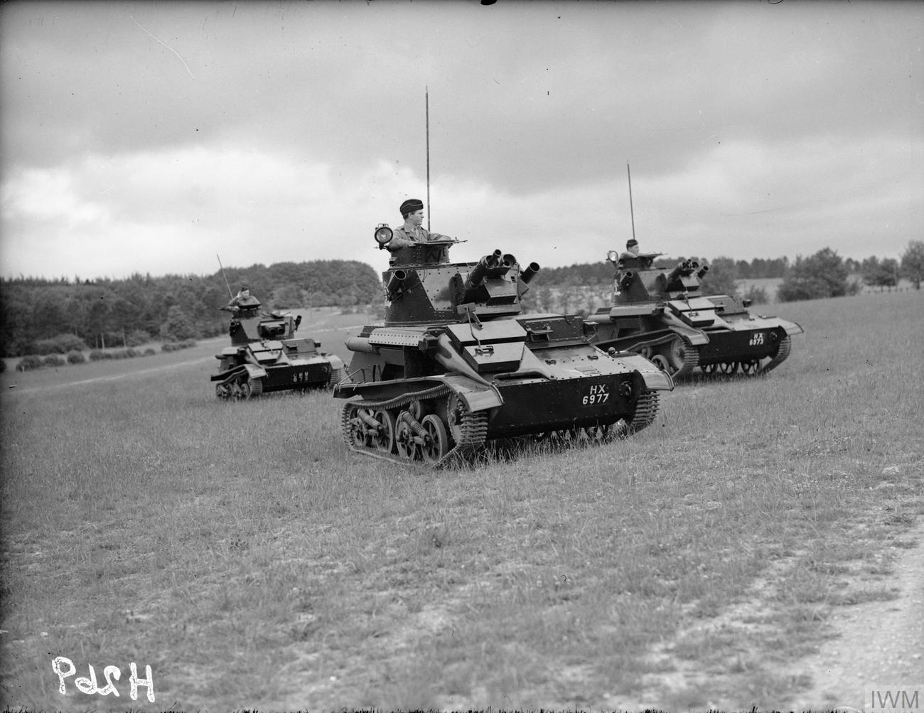 The British Army in the United Kingdom Light Tank Mk VIs of the 9th Lancers on manoeuvres at Tidworth, Wiltshire, 1938.